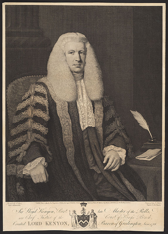 Portrait of Lloyd Kenyon, 1st Baron Kenyon (1732-1802)